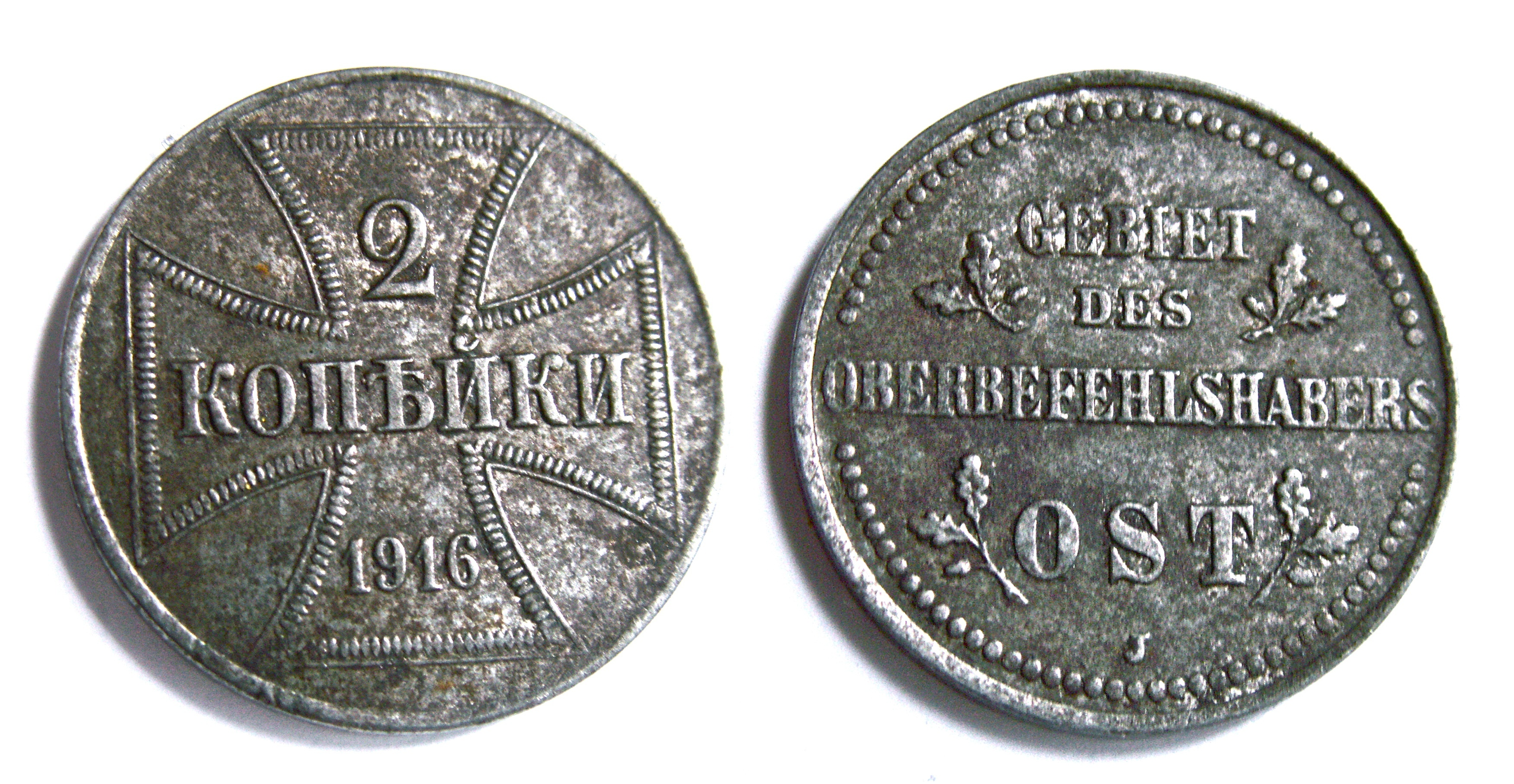 2 Kopecks Coin, Iron, Deutsches Reich 1916, Gebiet des Oberbefehlshabers Ost. Property of Hofer Antikschmuck, Berlin (Germany).